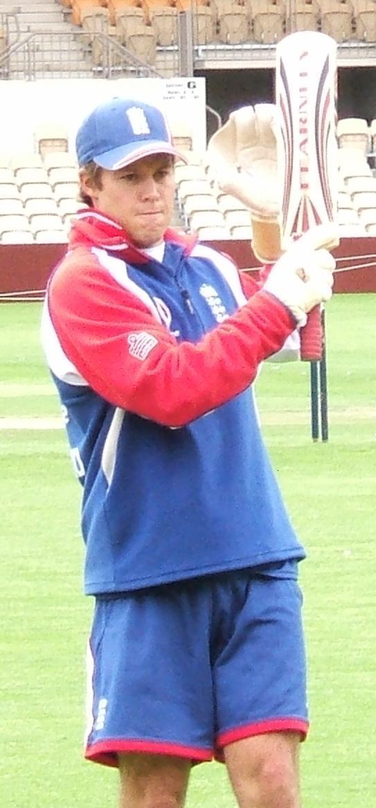 Geraint Jones during a fielding drill at the Oval